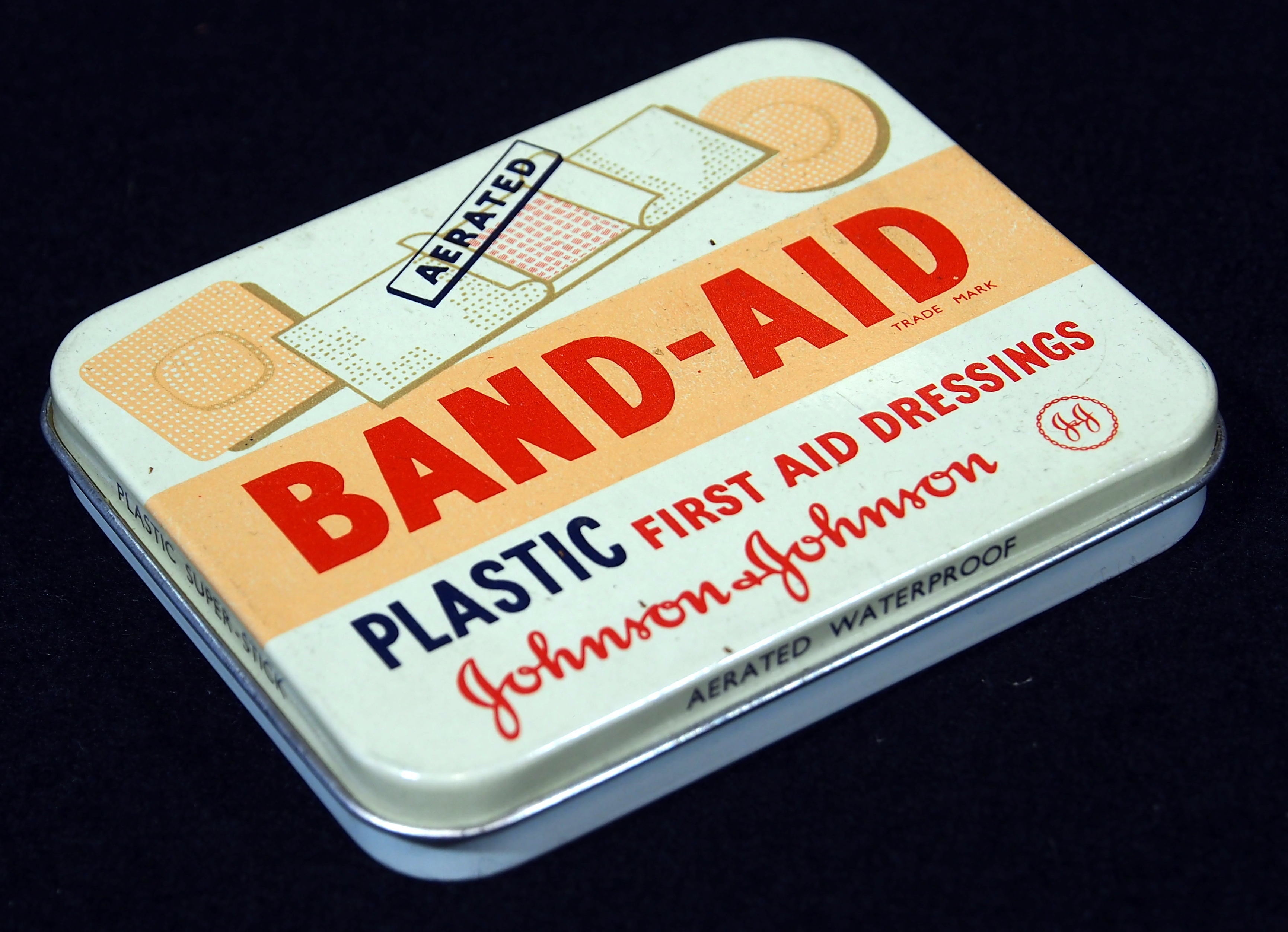 Very old product that is not produced and/or not sold any more.